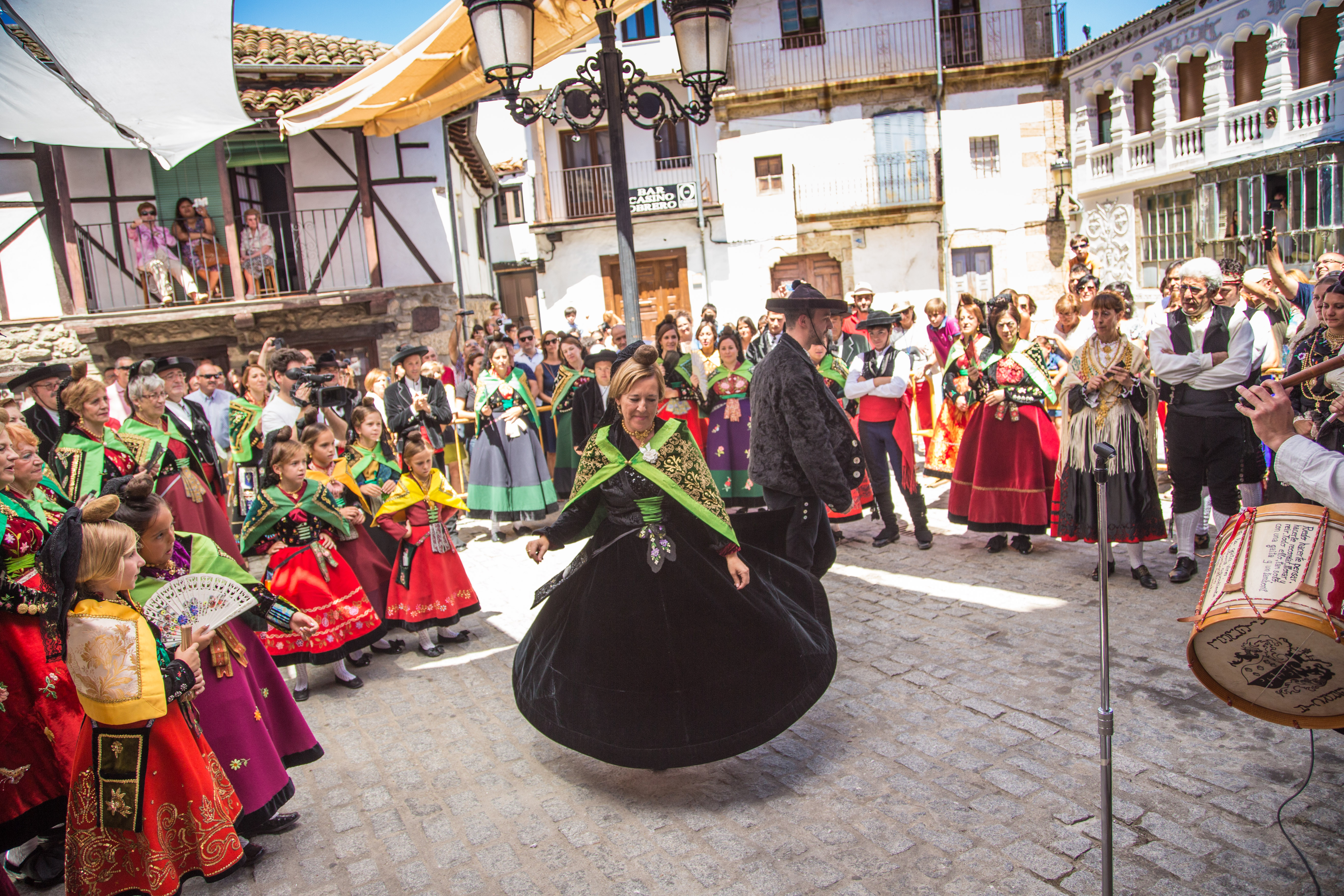 Candelario This is a photography of a Folklore festival in Spain (Wikidata id Q23658027).